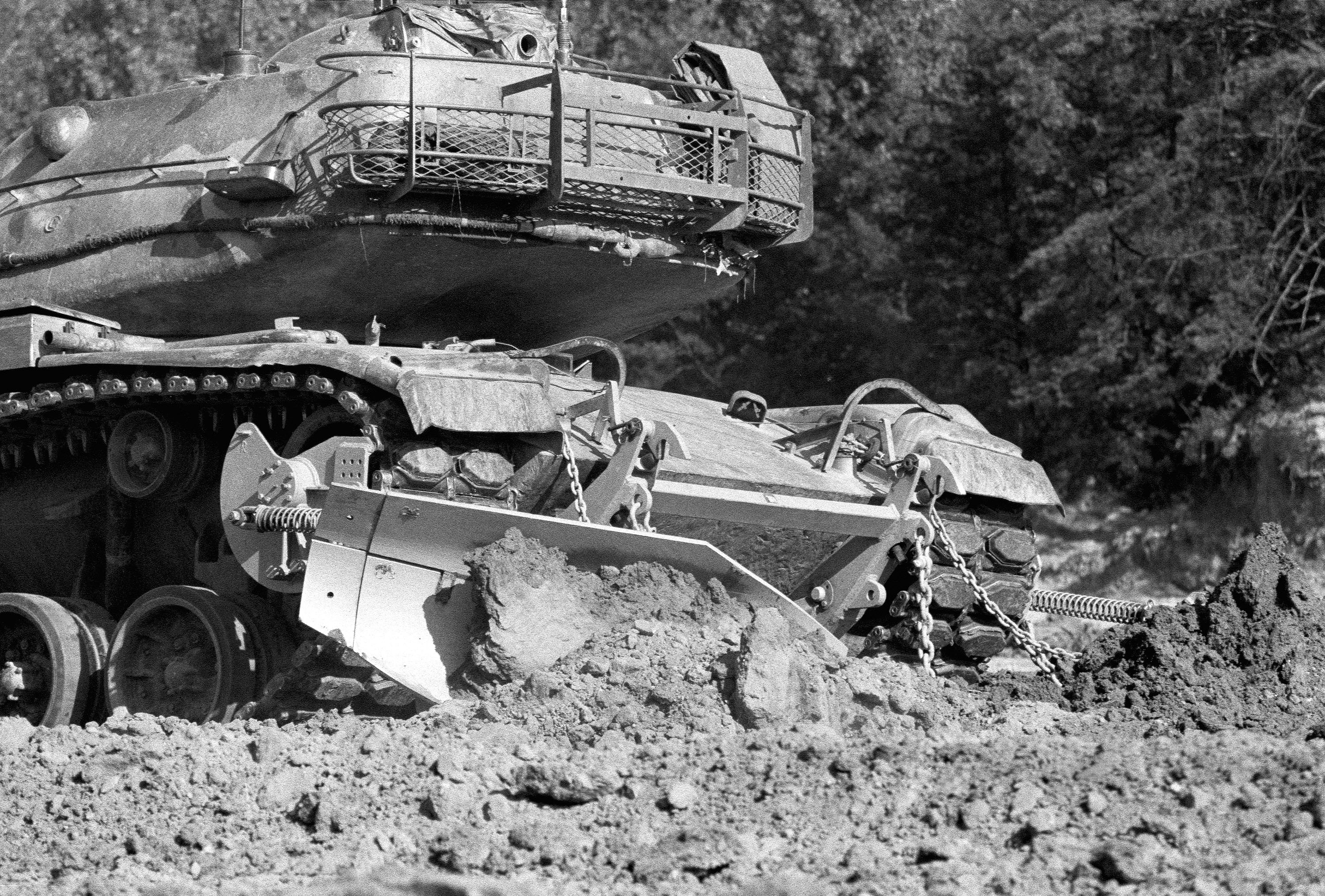 A right front view of an M60 main battle tank, equipped with a track width mine plow, during a demonstration of its capabilities. MARINE CORPS BASE, QUANTICO, VIRGINIA (VA) UNITED STATES OF AMERICA (USA)